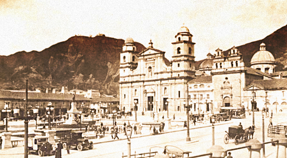 Cathedral of Bogota